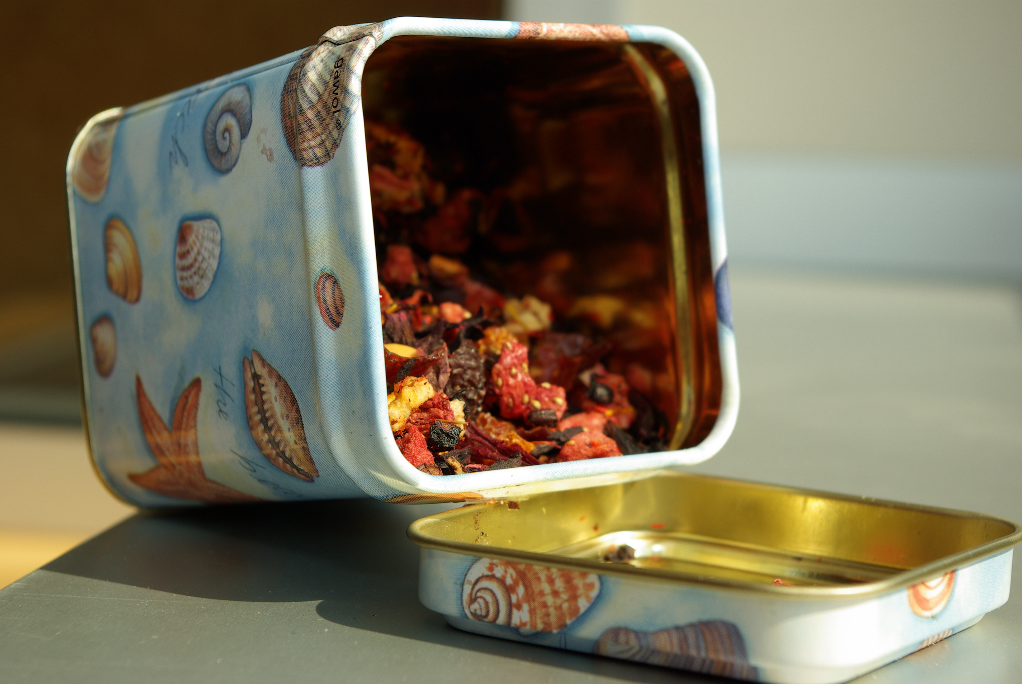 I guess I can say I'm a teetotaler tea totalist. I wish you could whiff that box, it definitely smells better than that brown horror called coffee.